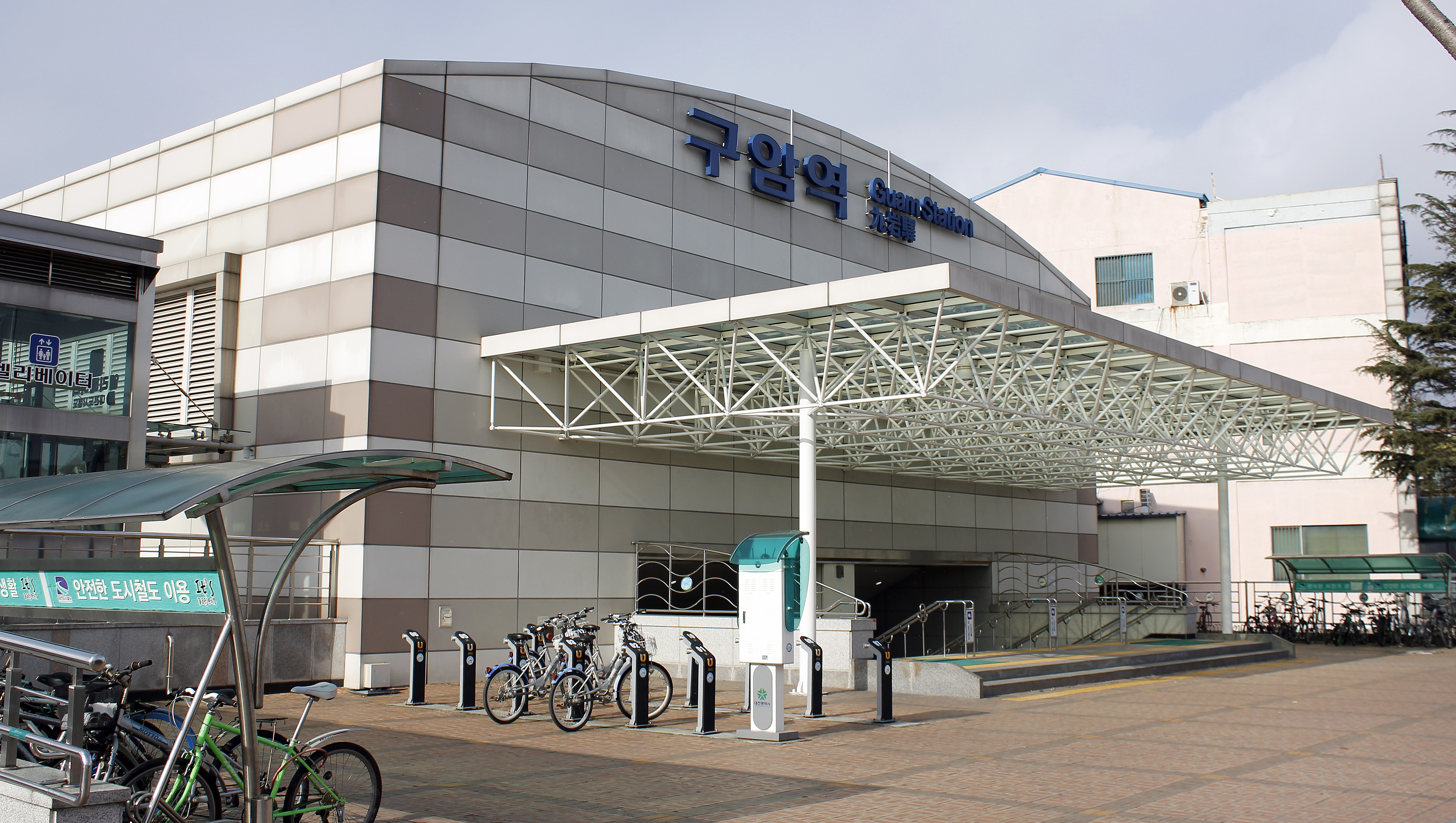 Guam Station Exit #3